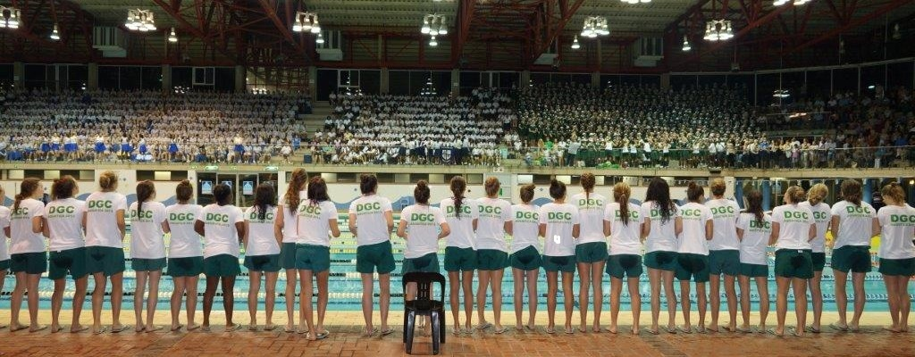 Image of D&D Gala winners 2013